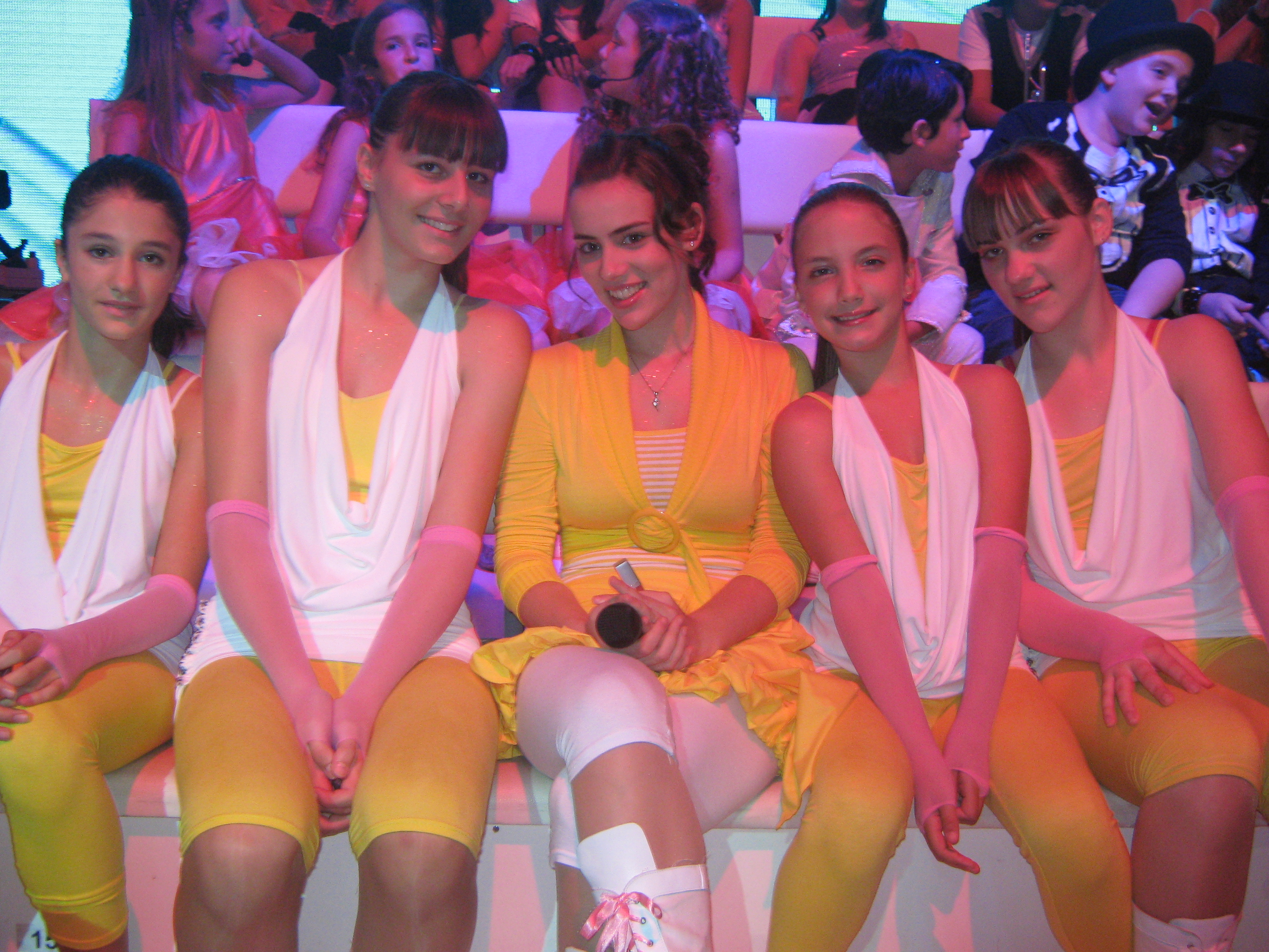 Marija Ugrica with dancers in green room of Serbian national final for JESC 2009.